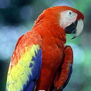 Scarlet Macaw